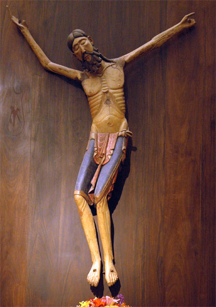 Descent from the Cross, San Pedro de Siresa Monastery. Siresa, Huesca, Spain